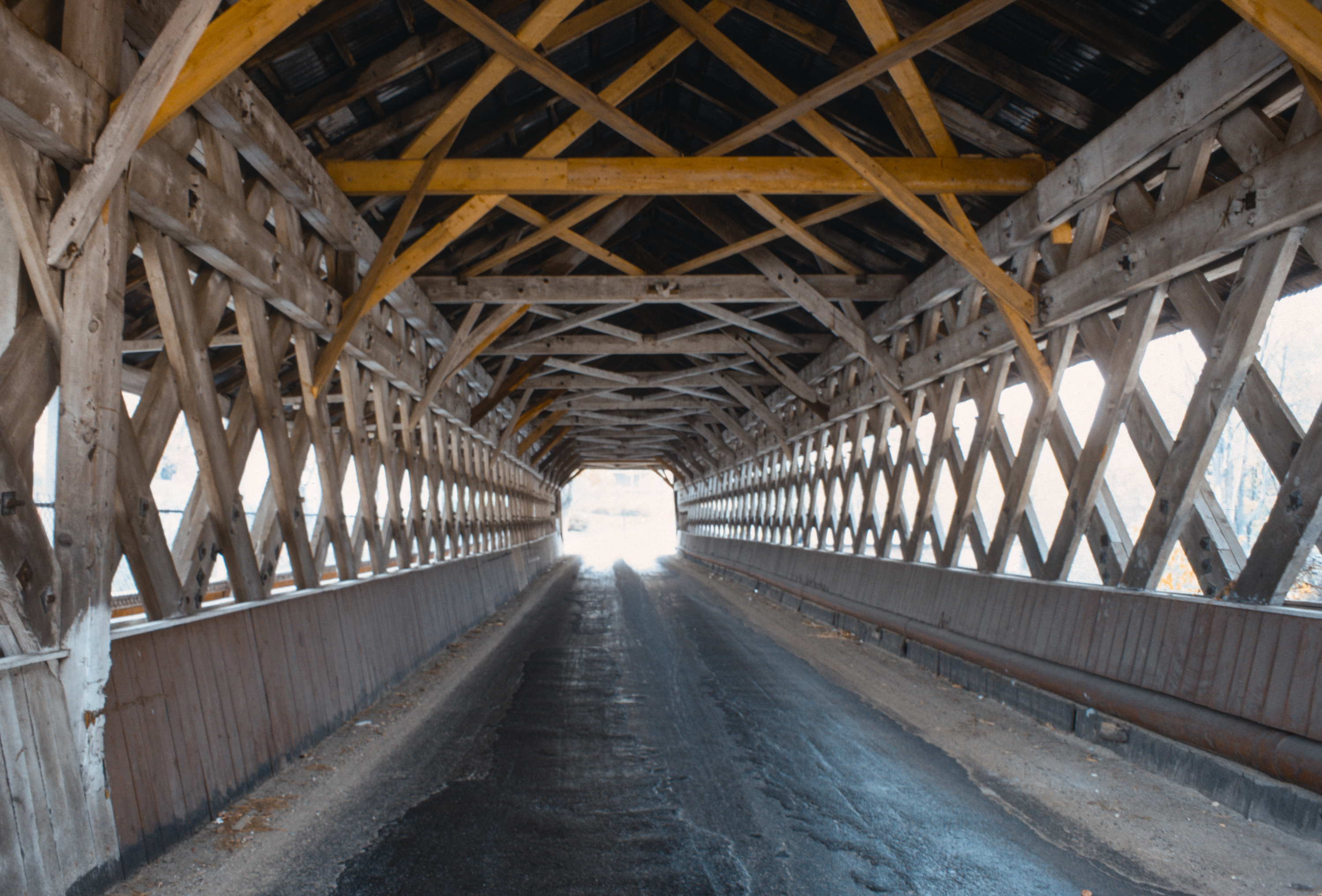 Inside the West Swanzey Covered Bridge, Thompson Bridge, number 5, before restoration, 1966.